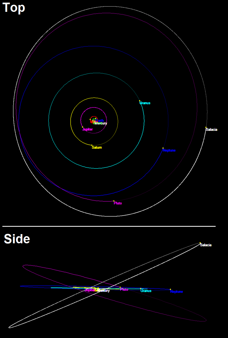 Salacia orbit around the sun